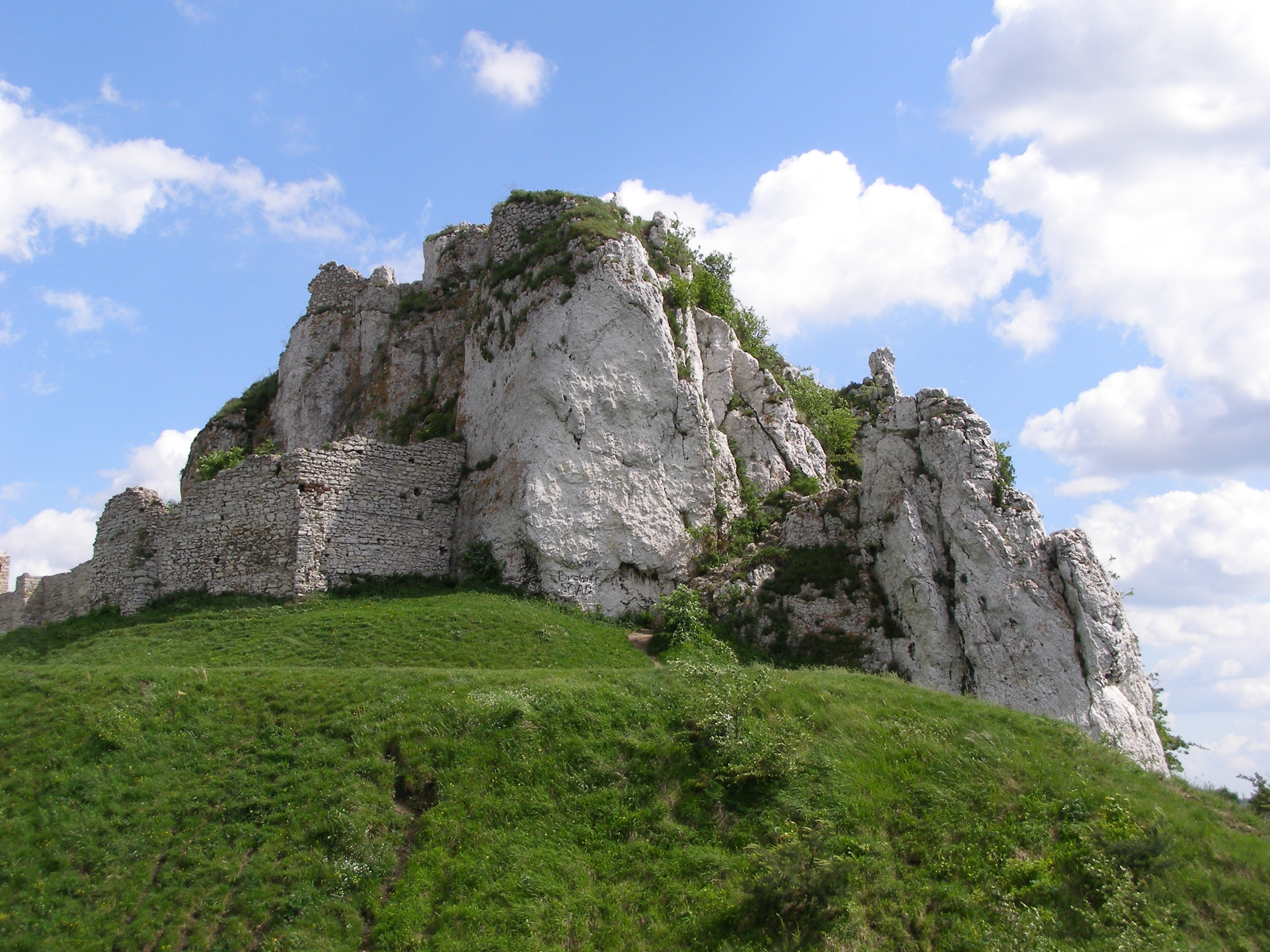 Rabsztyn - castle ruins